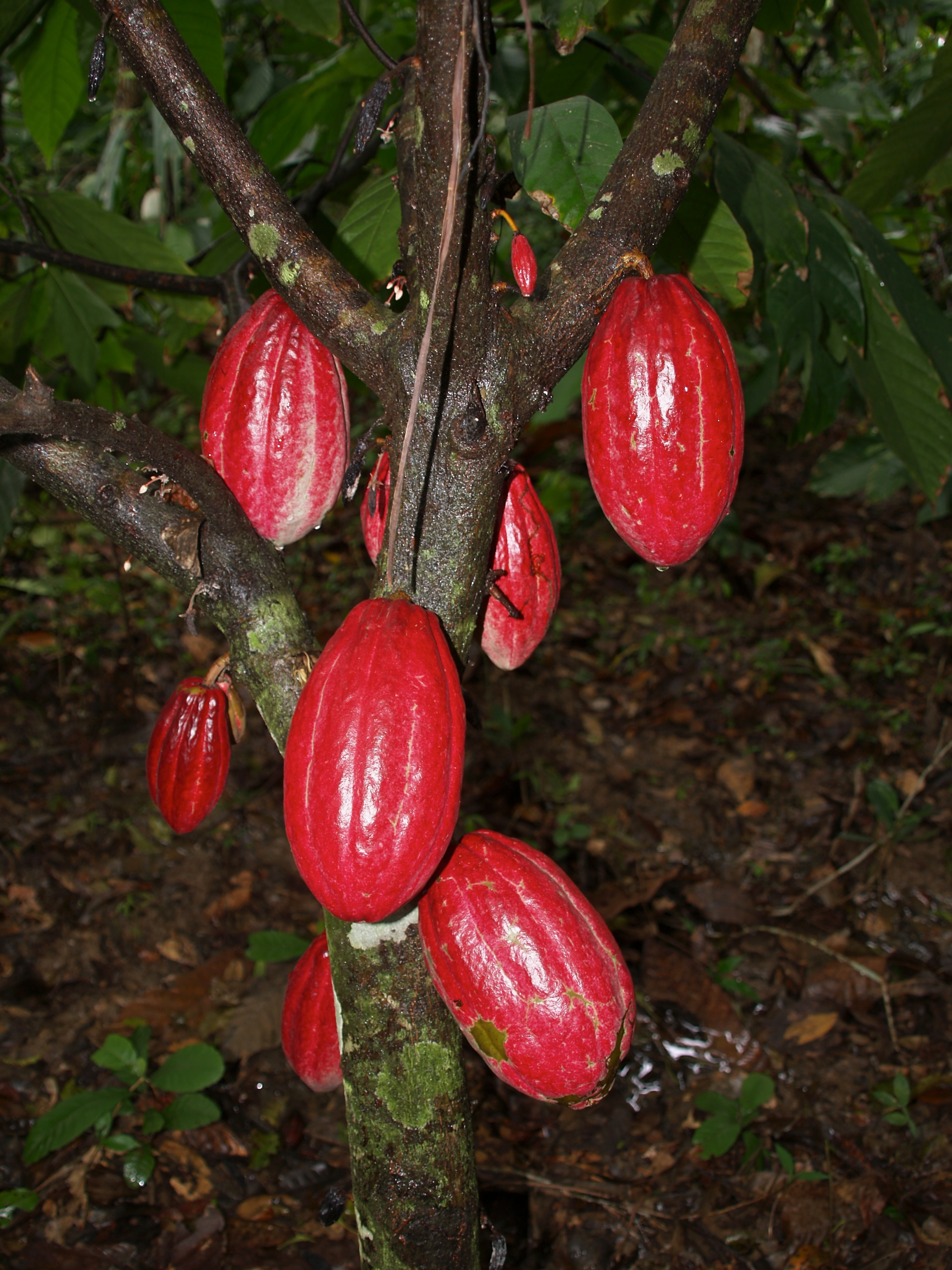 Theobroma cacao (red pods - Haiti)